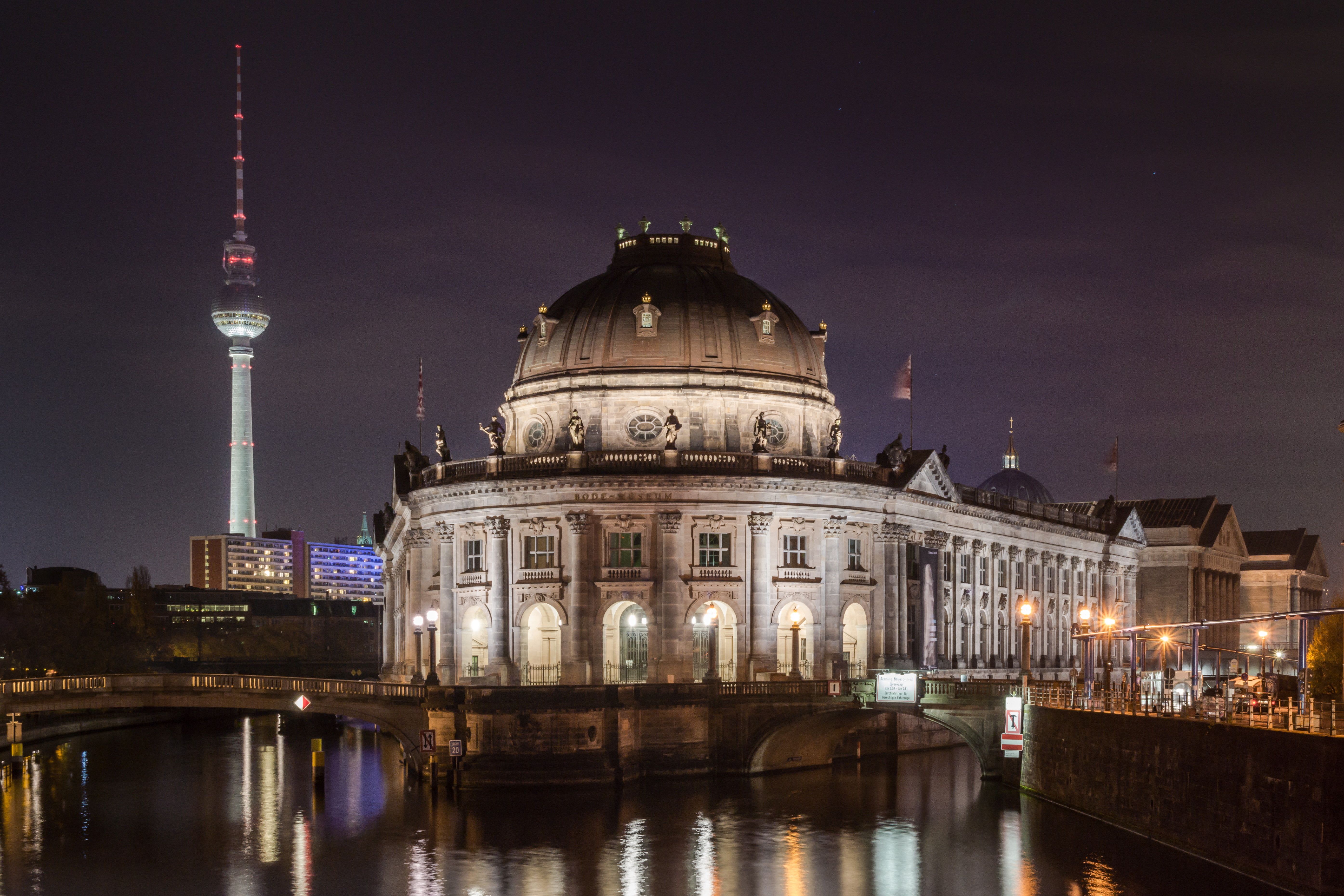 Bode Museum at night This is a photograph of an architectural monument.